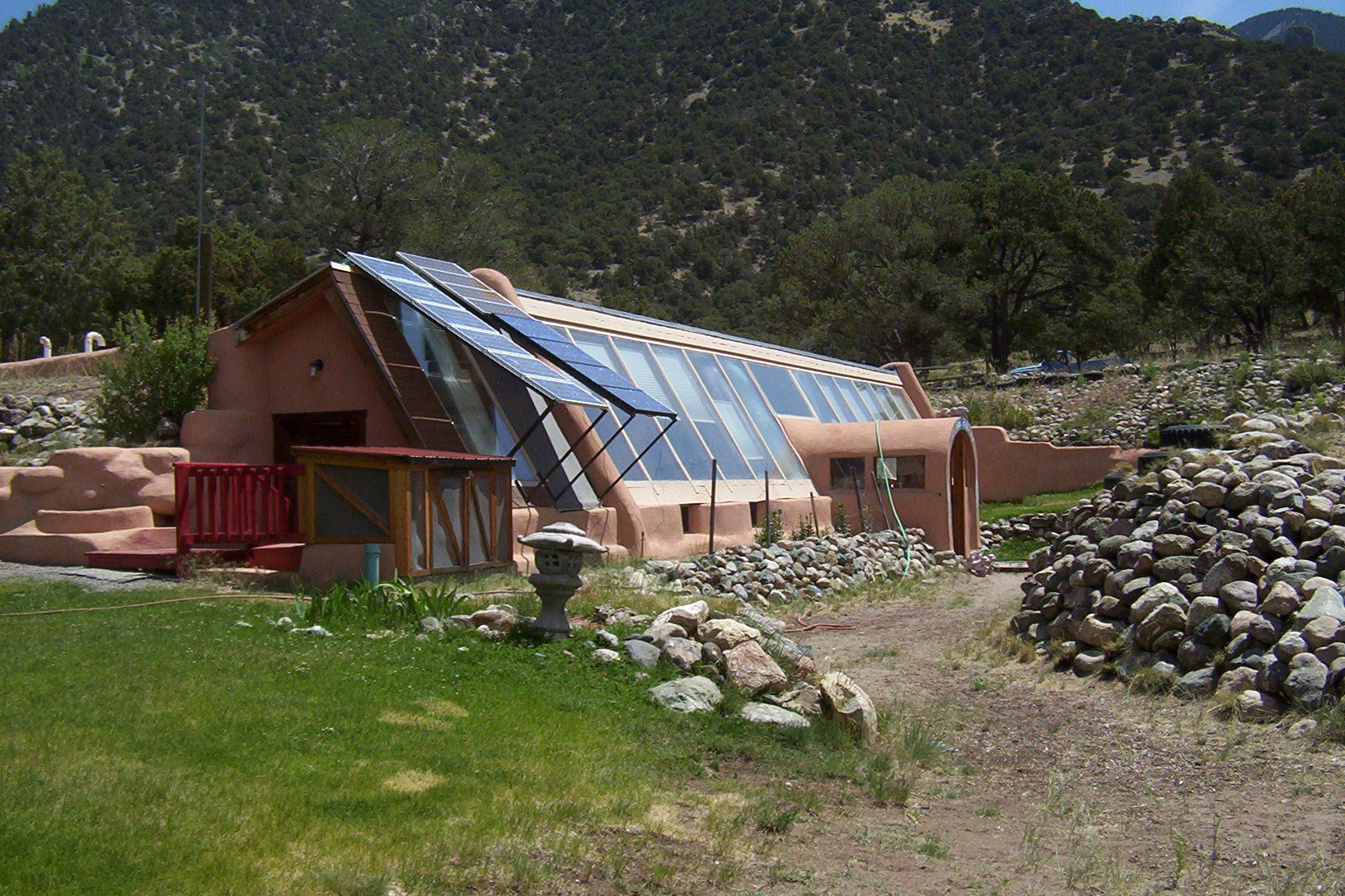 Passive solar building near Crestone, Colorado. This building serves as the earthship for the Haidakhandi Universal Ashram